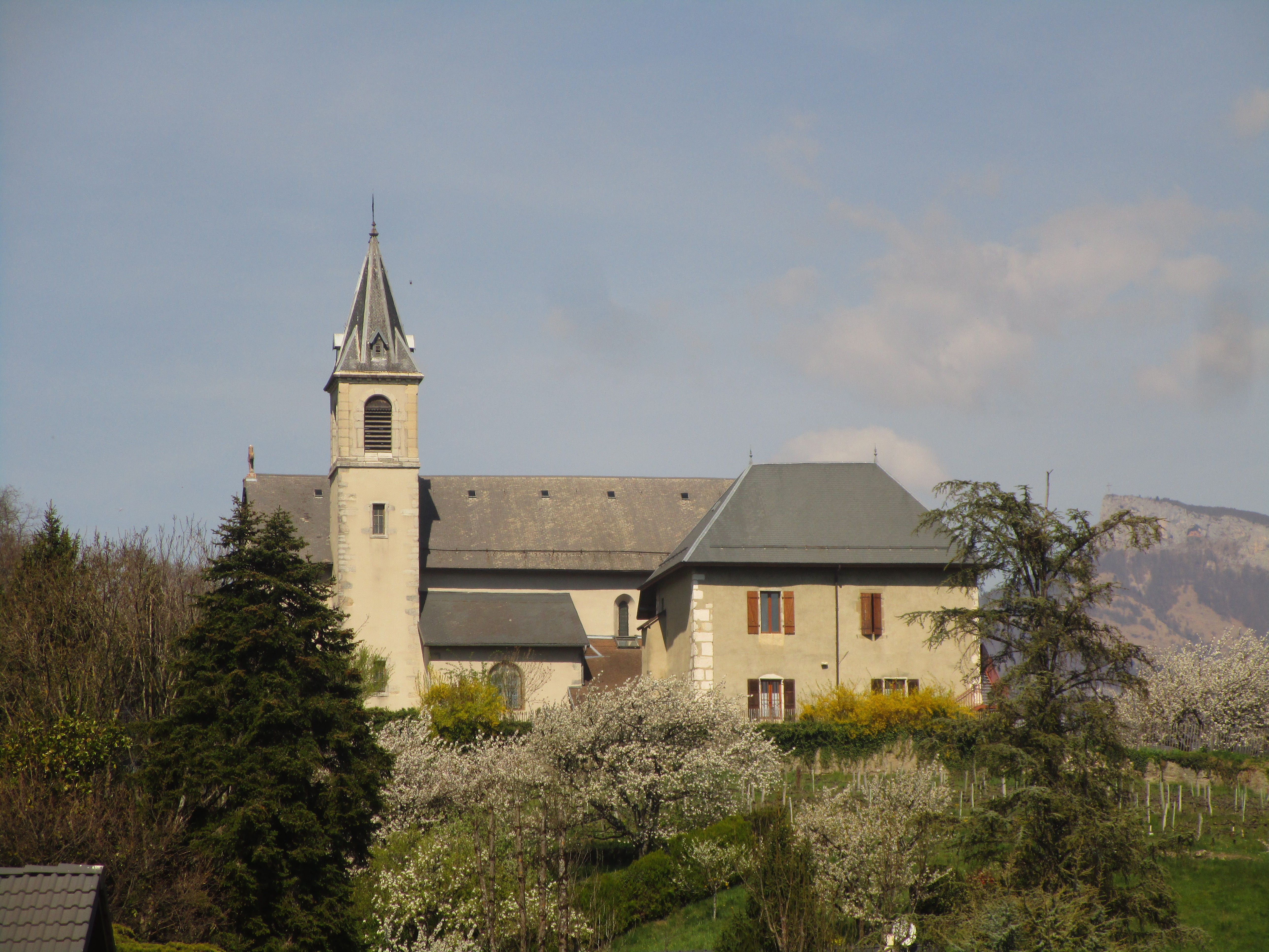 The church (Saint-Baldoph, France) on March 29, 2017.